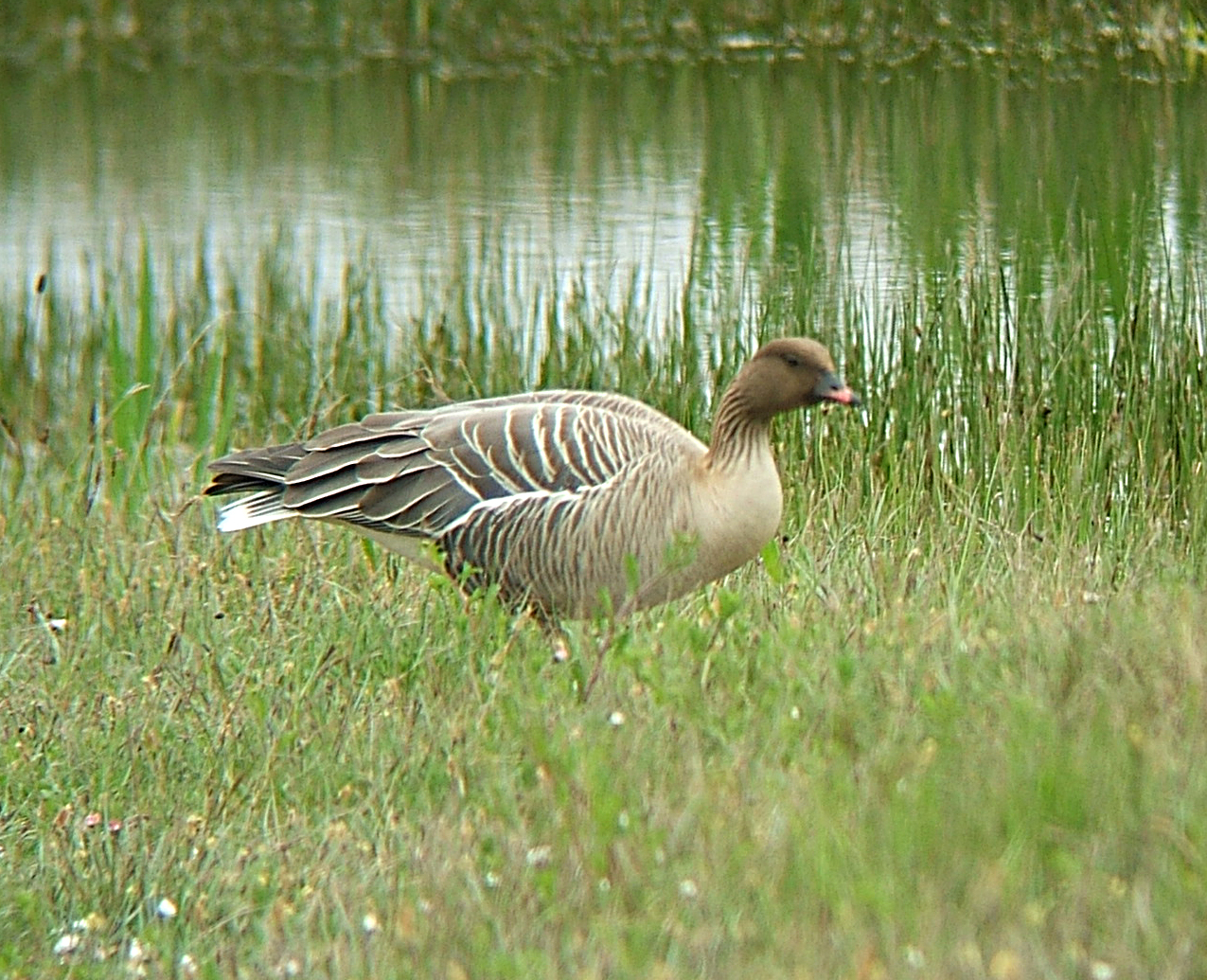 Anser brachyrhynchus, St Mary's Wetland, Northumberland, UK